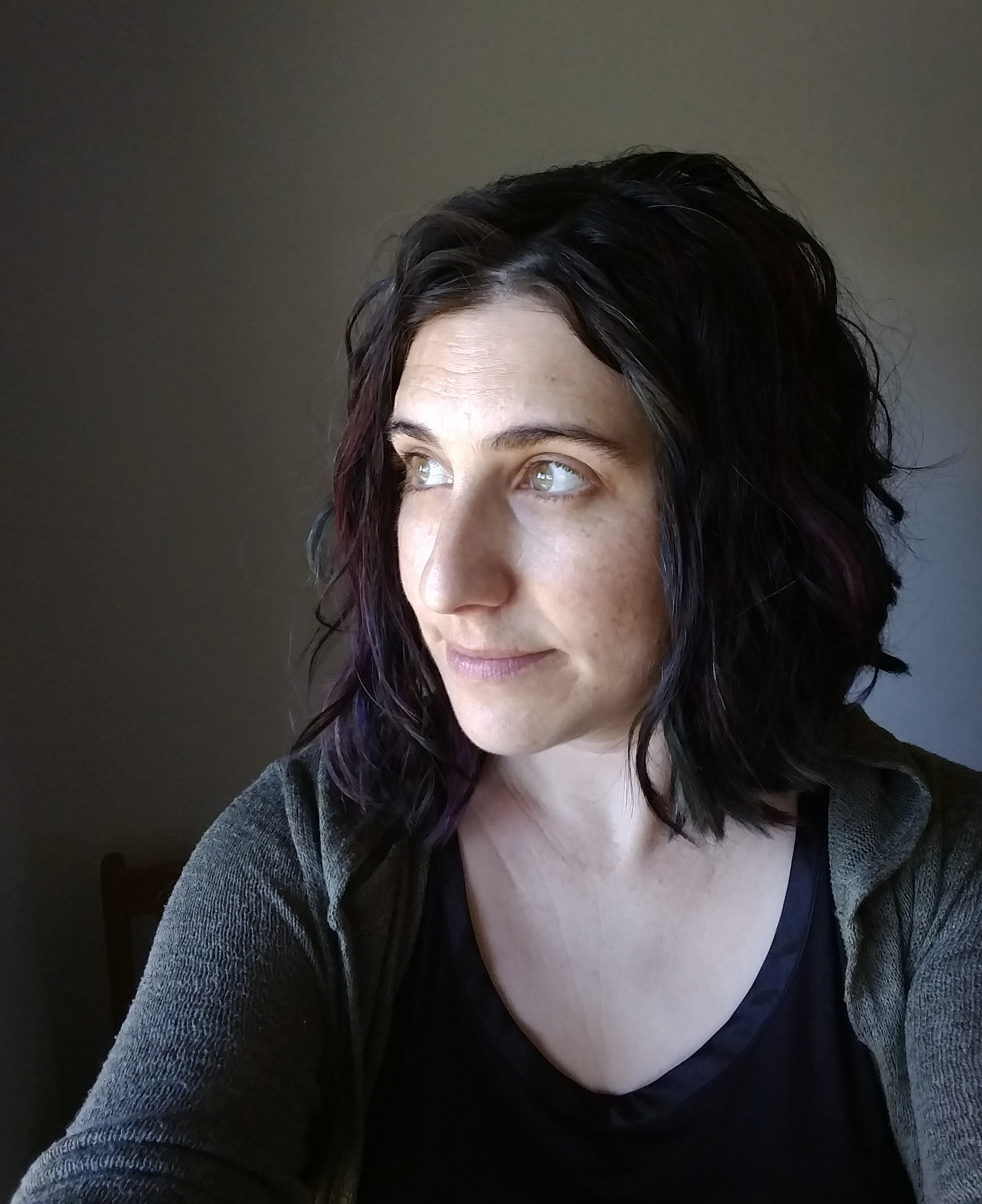 A headshot of Prof. Sarah Tuttle, taken at Apache Point Observatory.